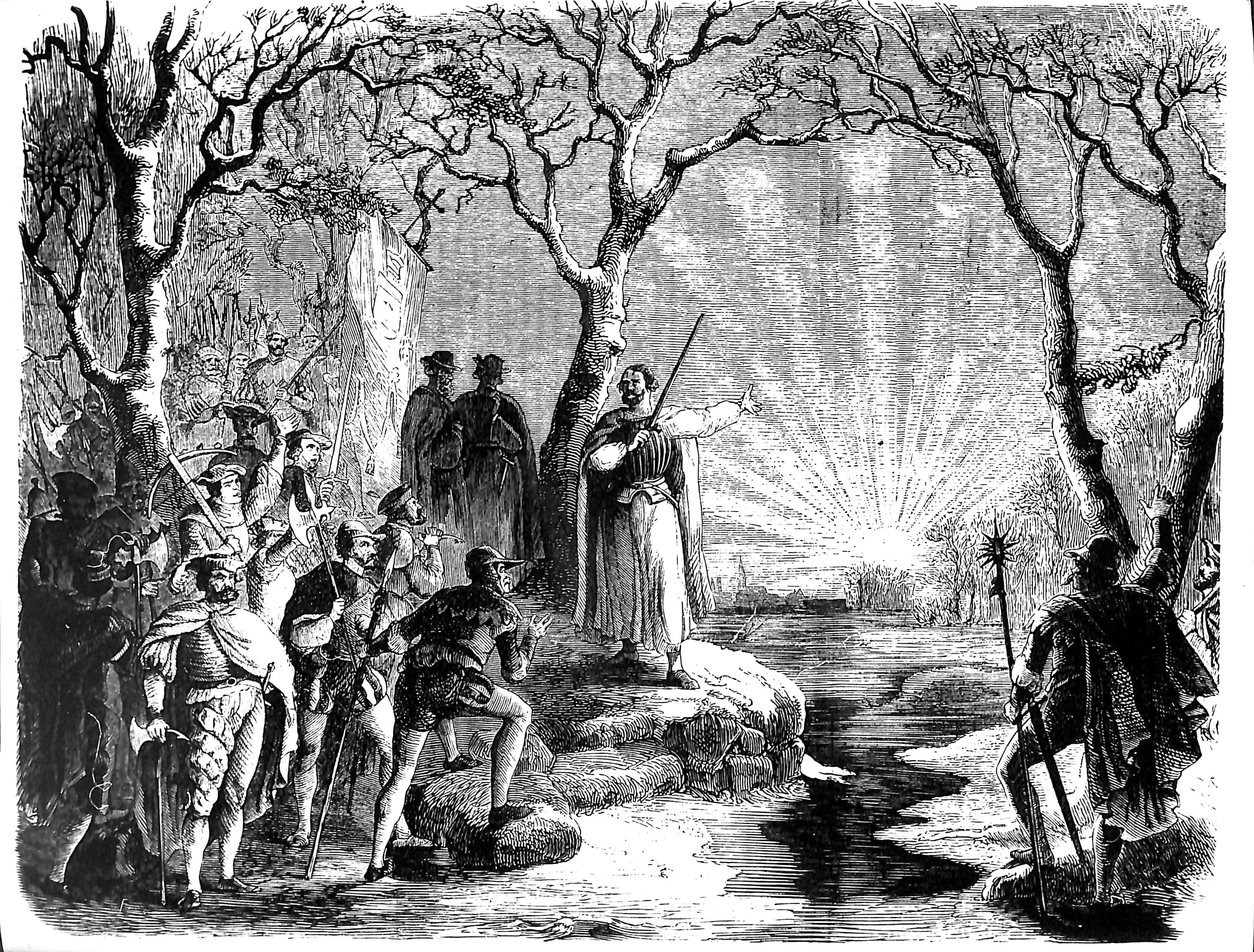 1850s engraving of a scene from Meyerbeer's Le Prophete (Act III Scene 3)